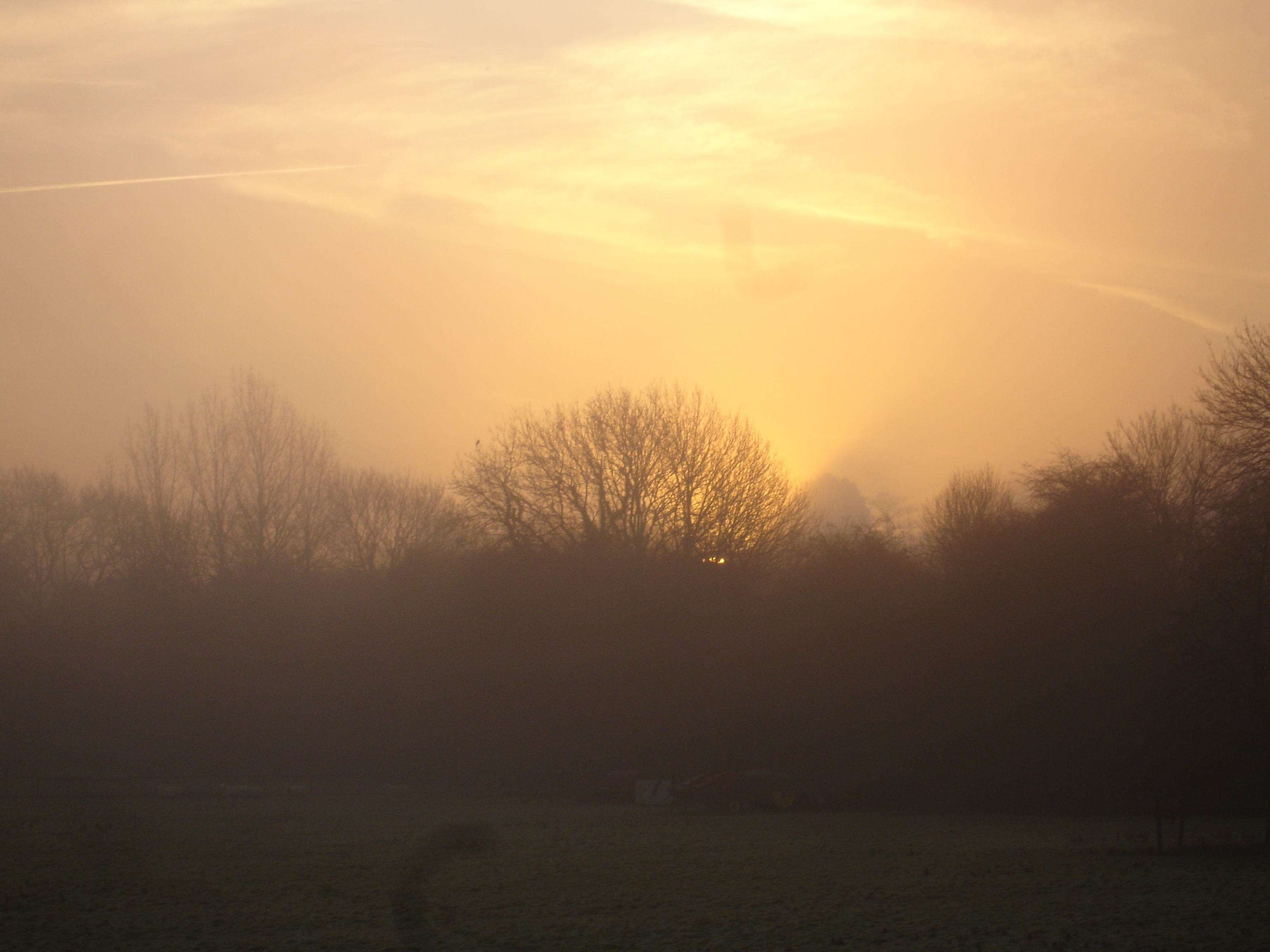 Crisp winter morning.